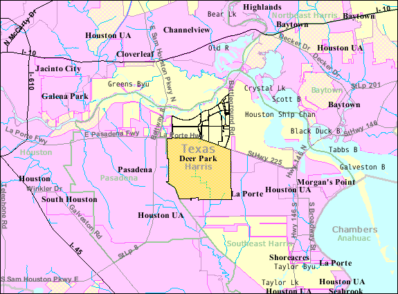 Map of Deer Park, Texas